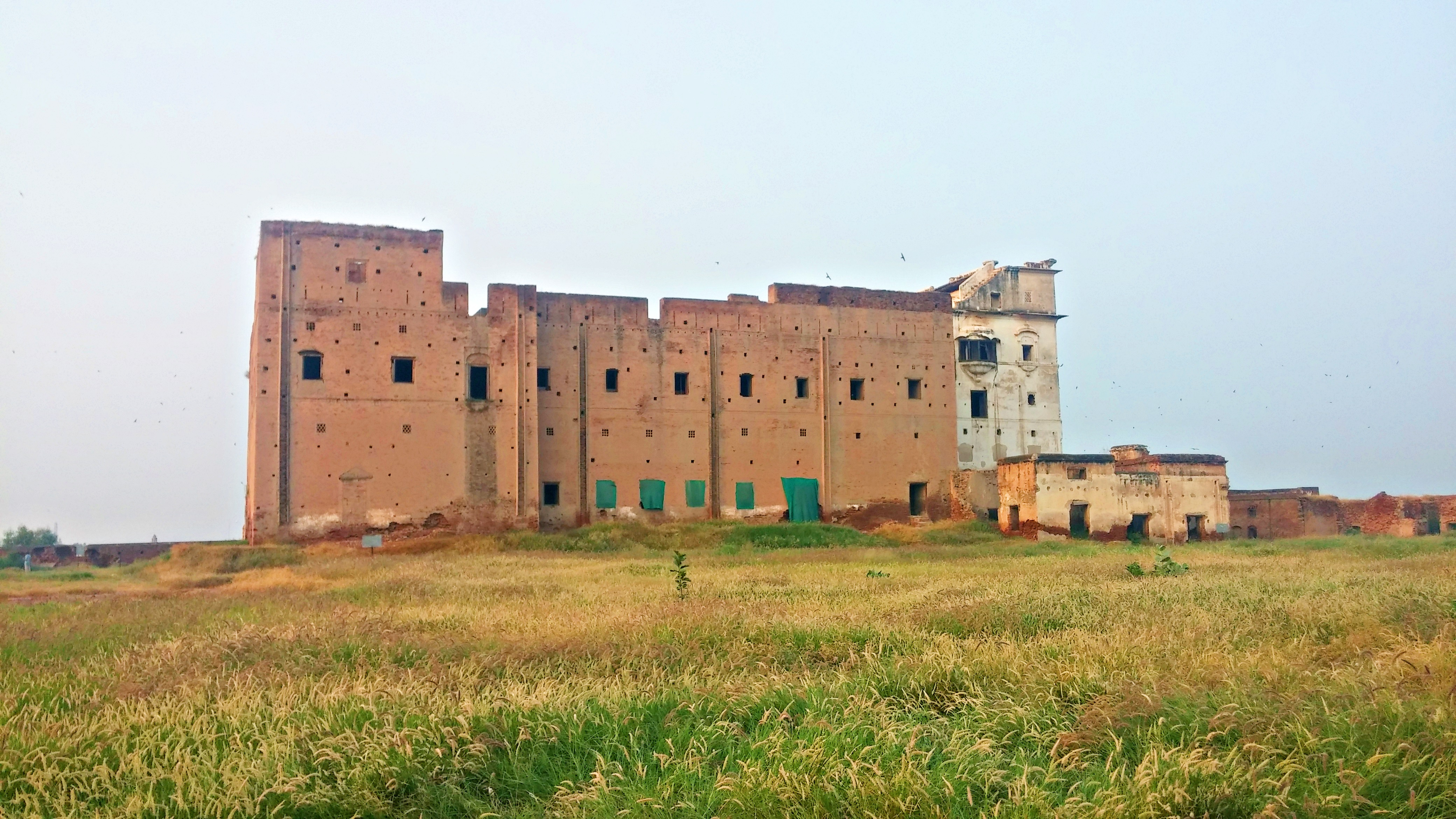 Inside view of Fort Sheikhupura